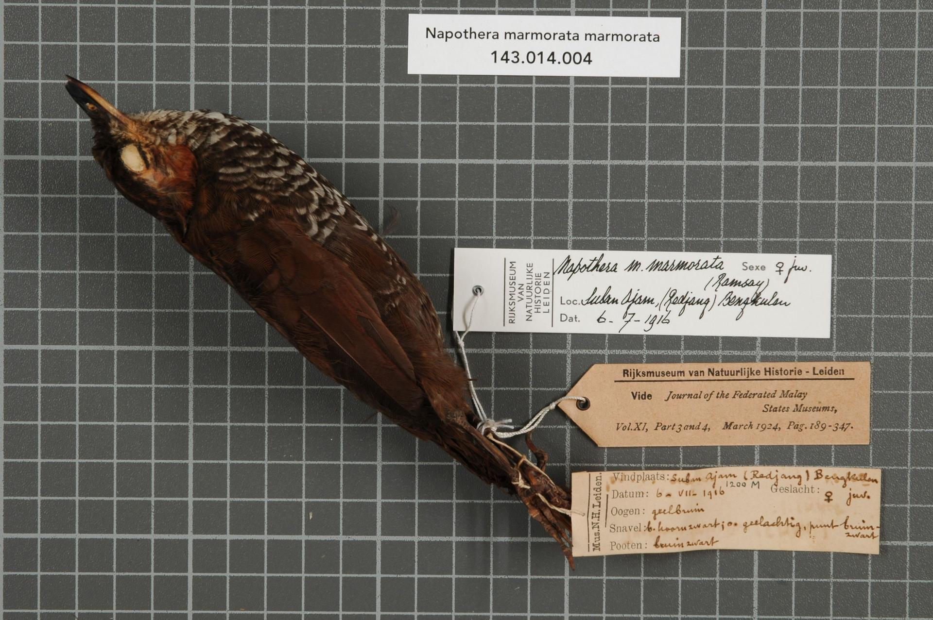 Napothera marmorata marmorata (Ramsay, 1836)